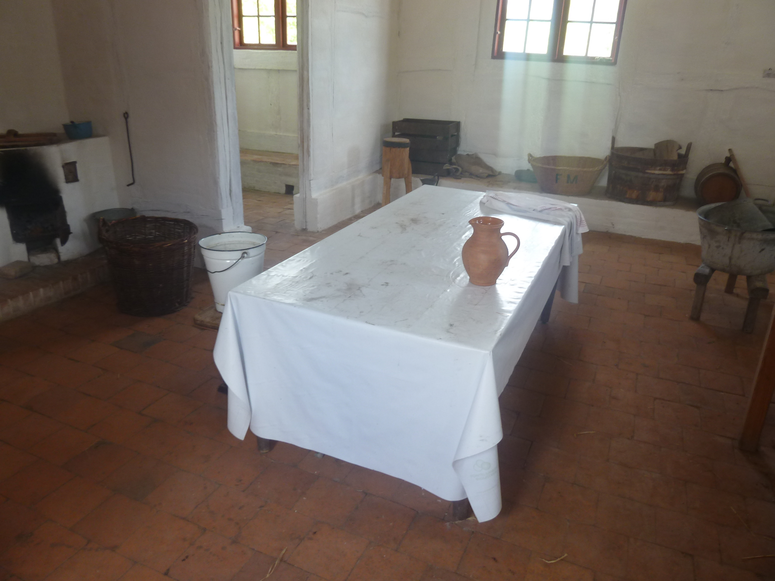 Manor from Fjellerup, Djursland, now on Frilandsmuseet (the open air museum) north of Copenhagen.